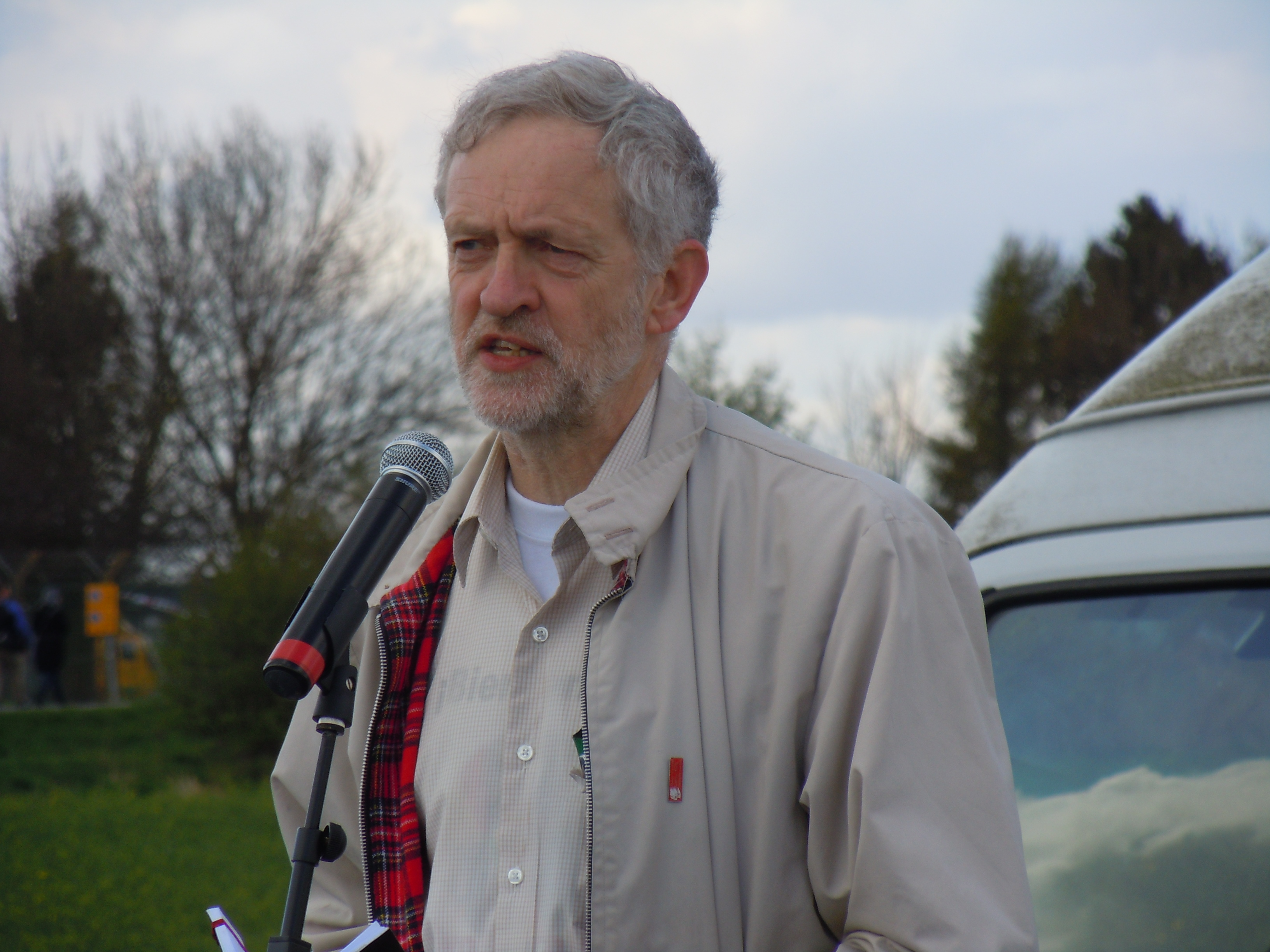 Jeremy Corbyn MP speaks at anti-drones rally, 27 April 2013